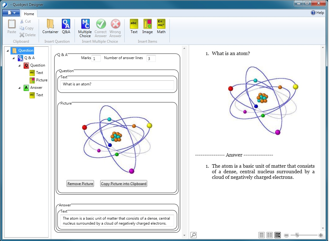 Screen shot of Quobject Designer